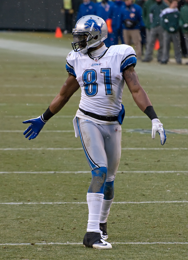 Detroit Lions vs. Green Bay Packers at Lambeau Field on January 1, 2012. Photo by Mike Morbeck.